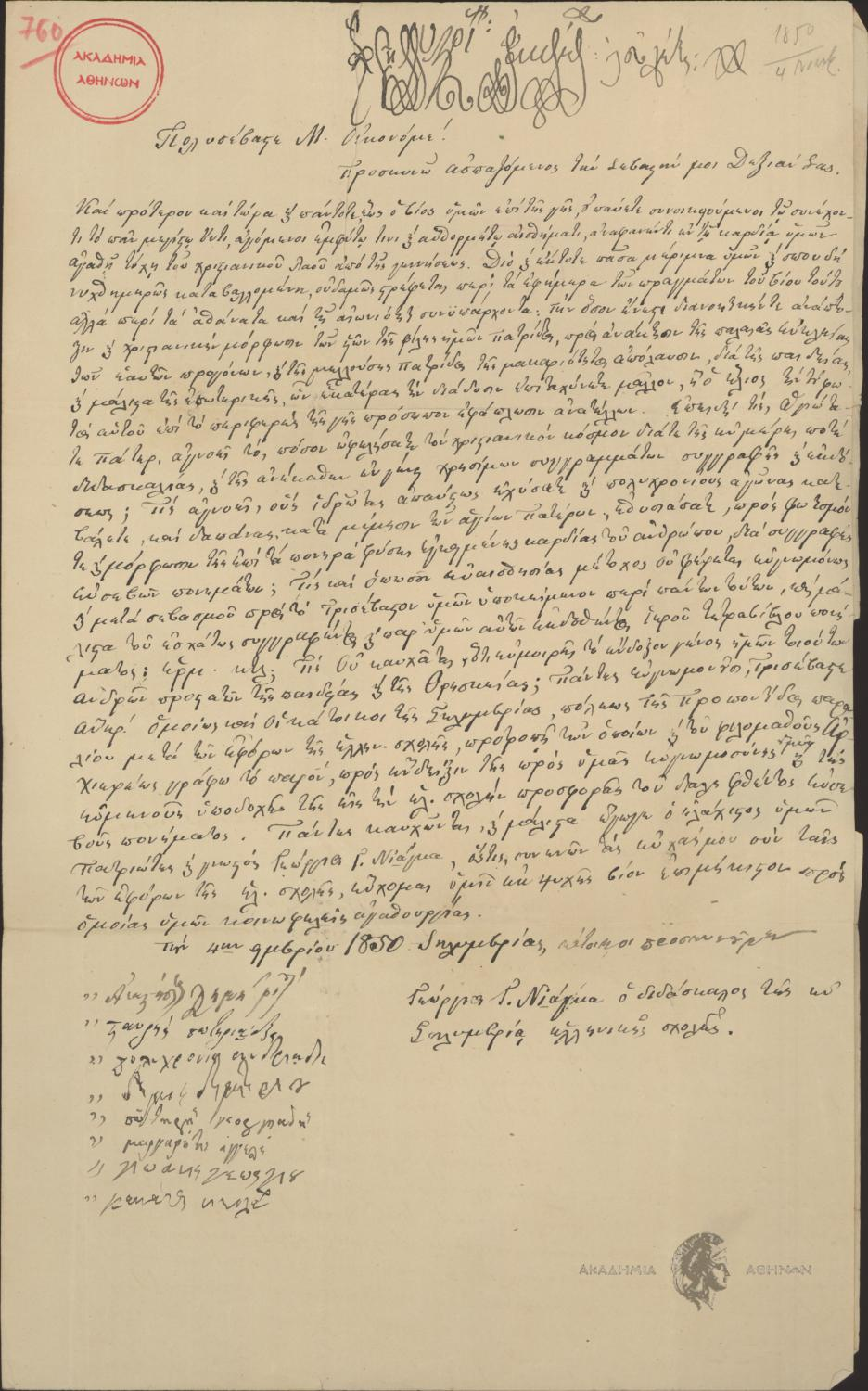 Letter from Georgios Niagkas to Konstantinos Oikonomos